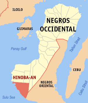 Map of Negros Occidental showing the location of Hinoba-an